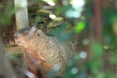 a simple groundhog